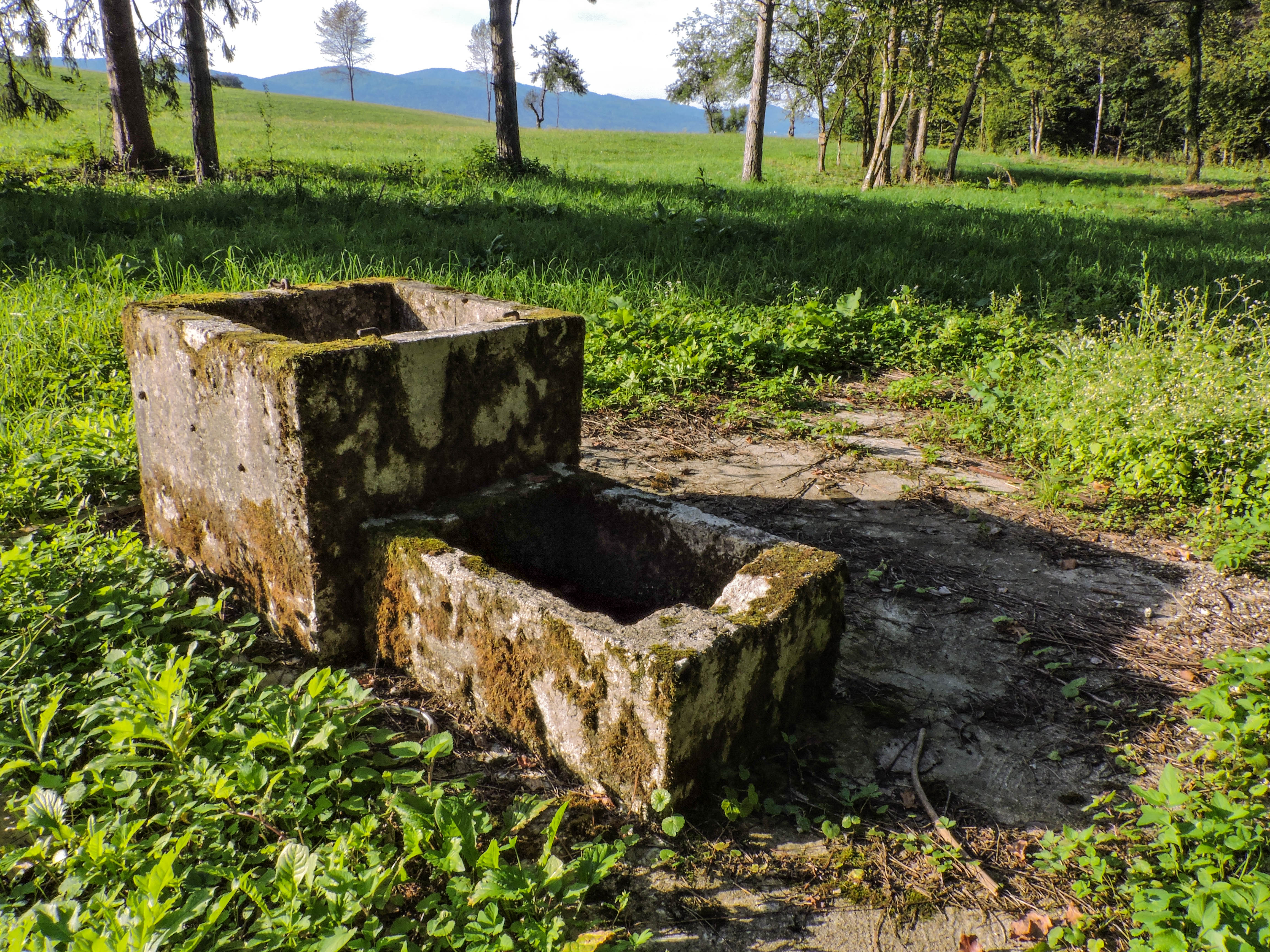 And abandoned well near Stranska vas pri Semiču. On the same location used to be a tree nursery, but it has been long abandoned, the only thing that remains is the well and some spruce trees.